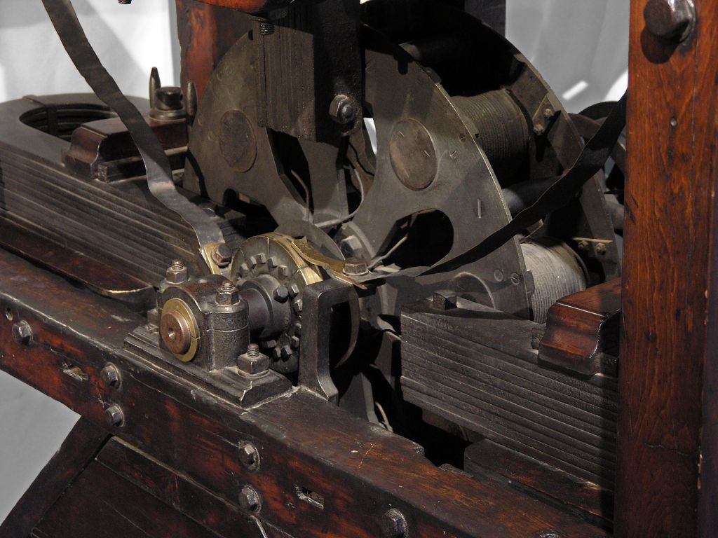 The Woolrich Electrical Generator. Editing undertaken: Unsharp Mask, Shadows/Highlights